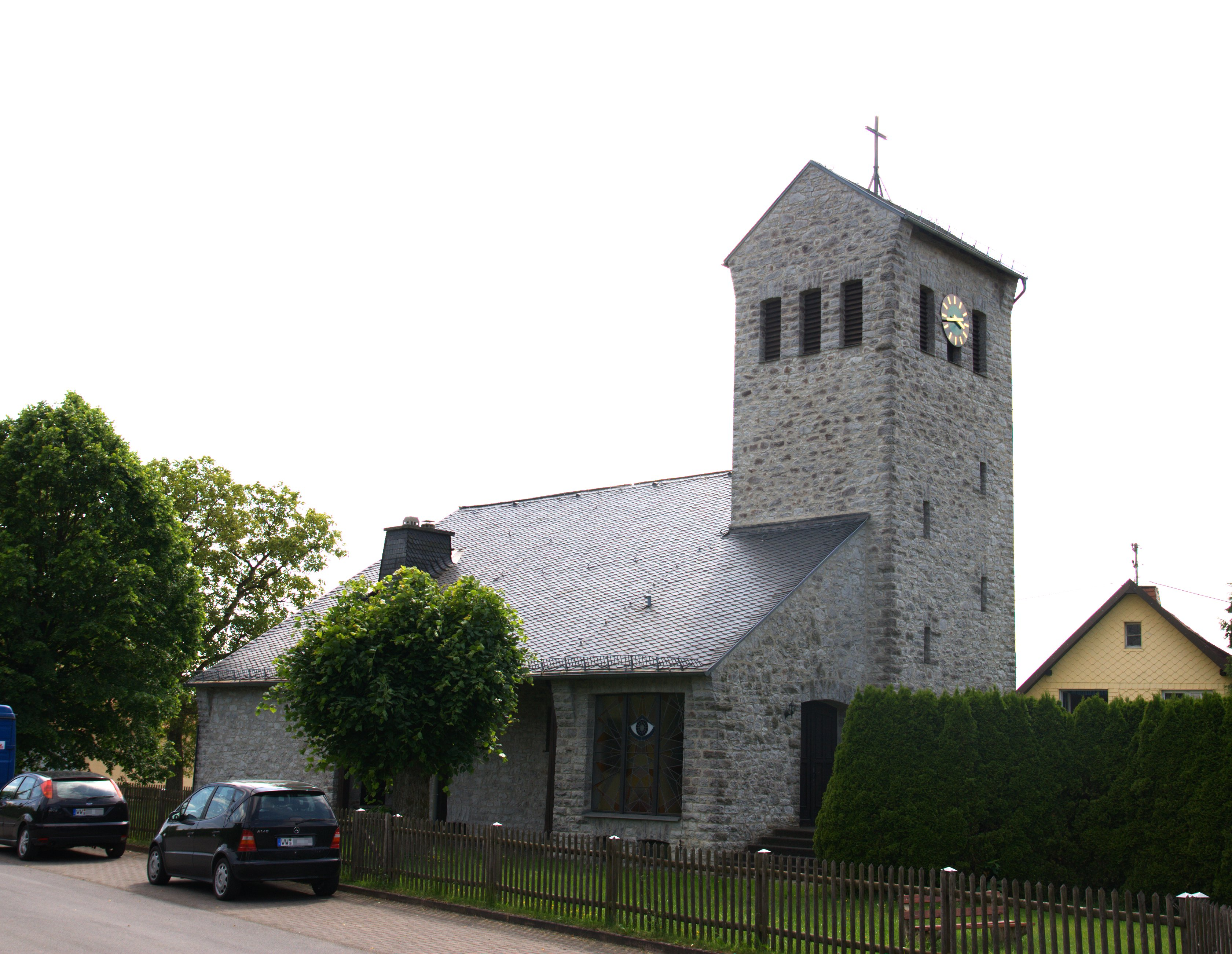 Church in Steinen, Westerwald, Rhineland-Palatinate, Germany